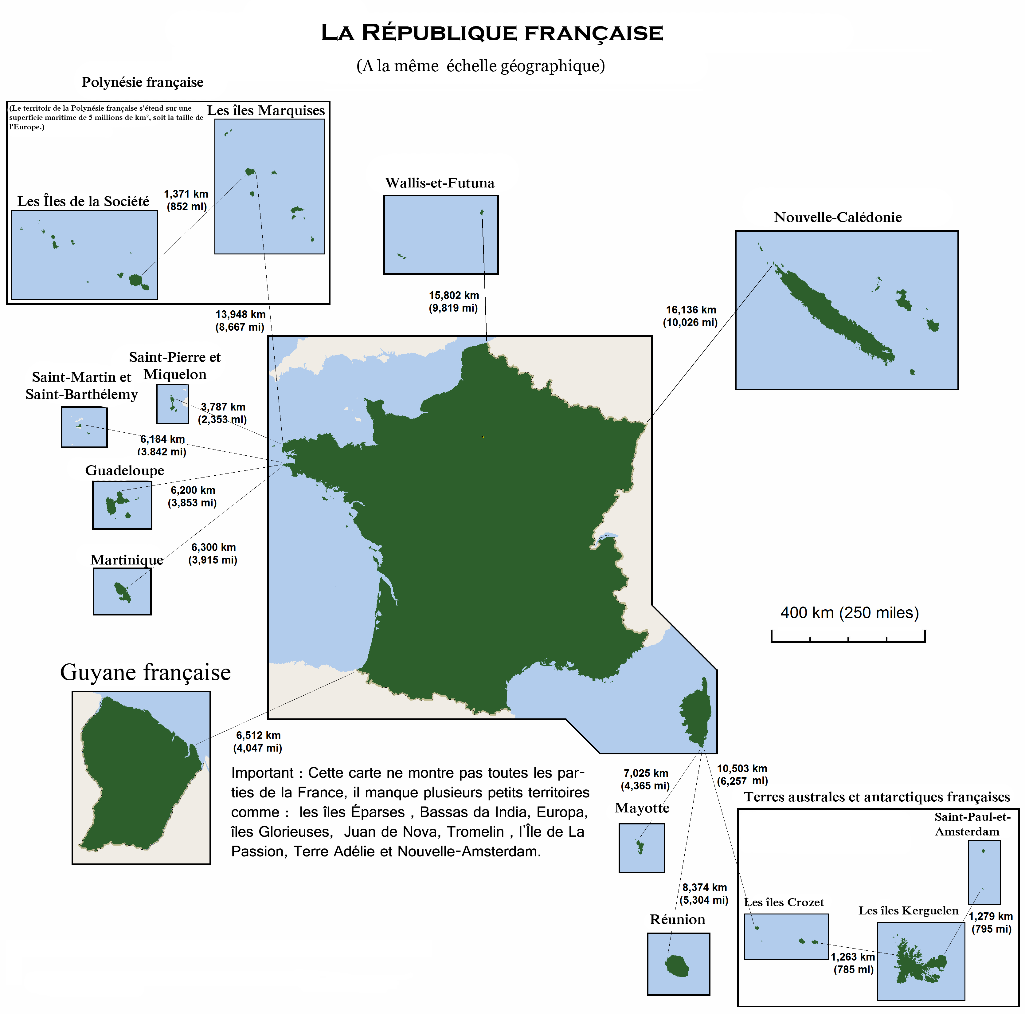 French language version of File:France-Constituent-Lands.png originally translated by User:Hypersite.